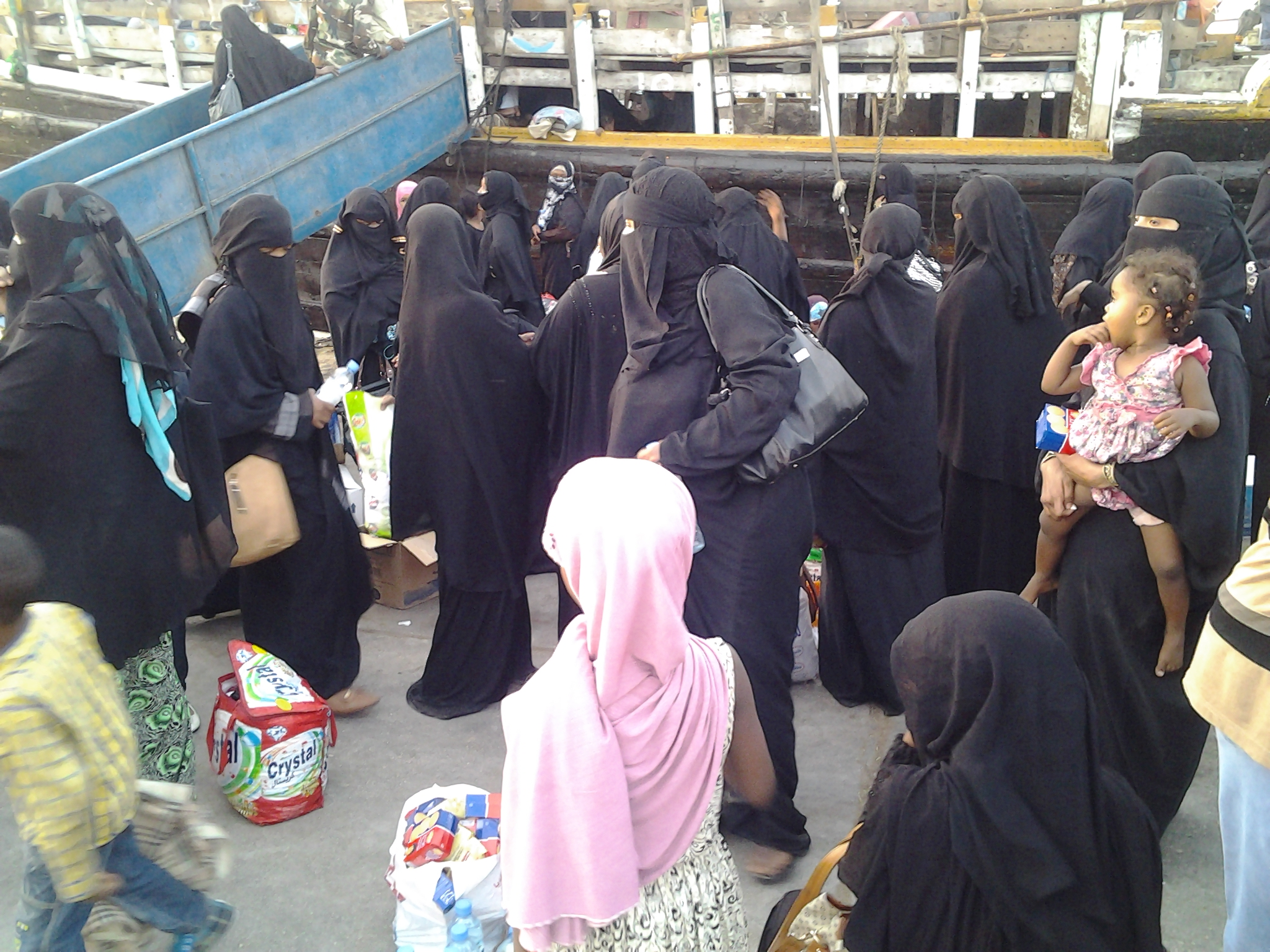 Somali expatriates returning from Yemen in Bosaso, Puntland, Somalia (2015).